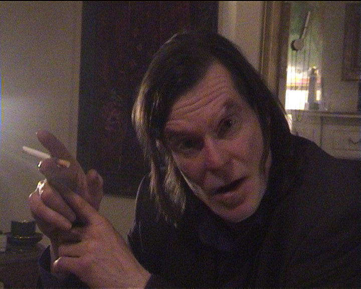 Rotterdam omni-artist Henri van Zanten at the home of Pamela Hemelrijk in December 2003.